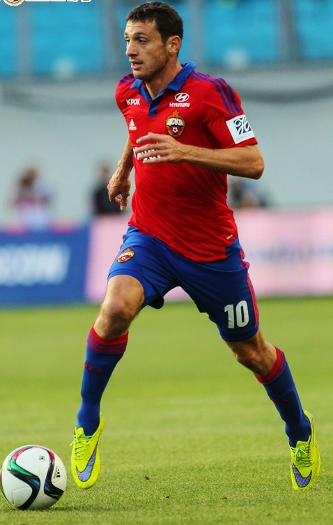 Alan Dzagoev